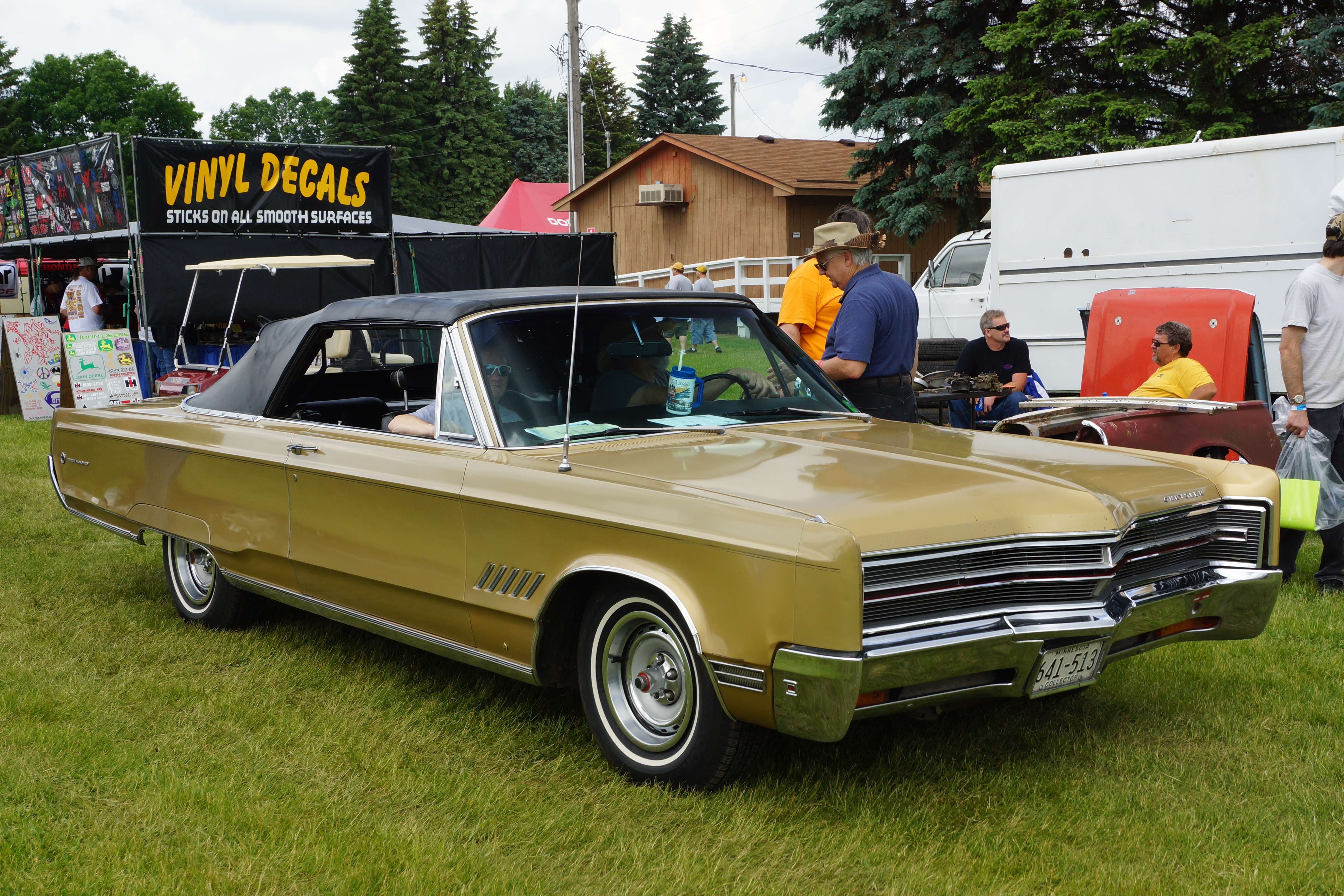 Midwest Mopars in the Park National Car Show & Swap Meet Dakota County Fairgrounds Farmington, Minntesota June 4 & 5, 2016